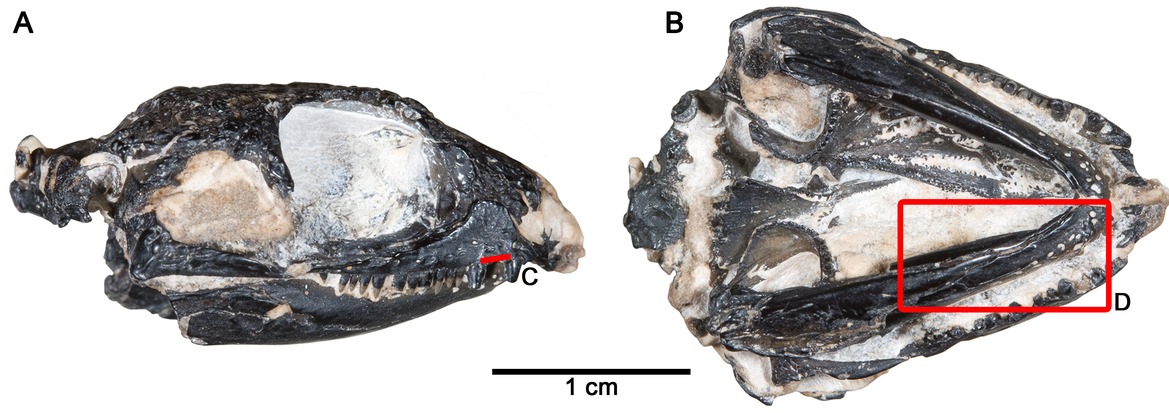 Crop of file in filename